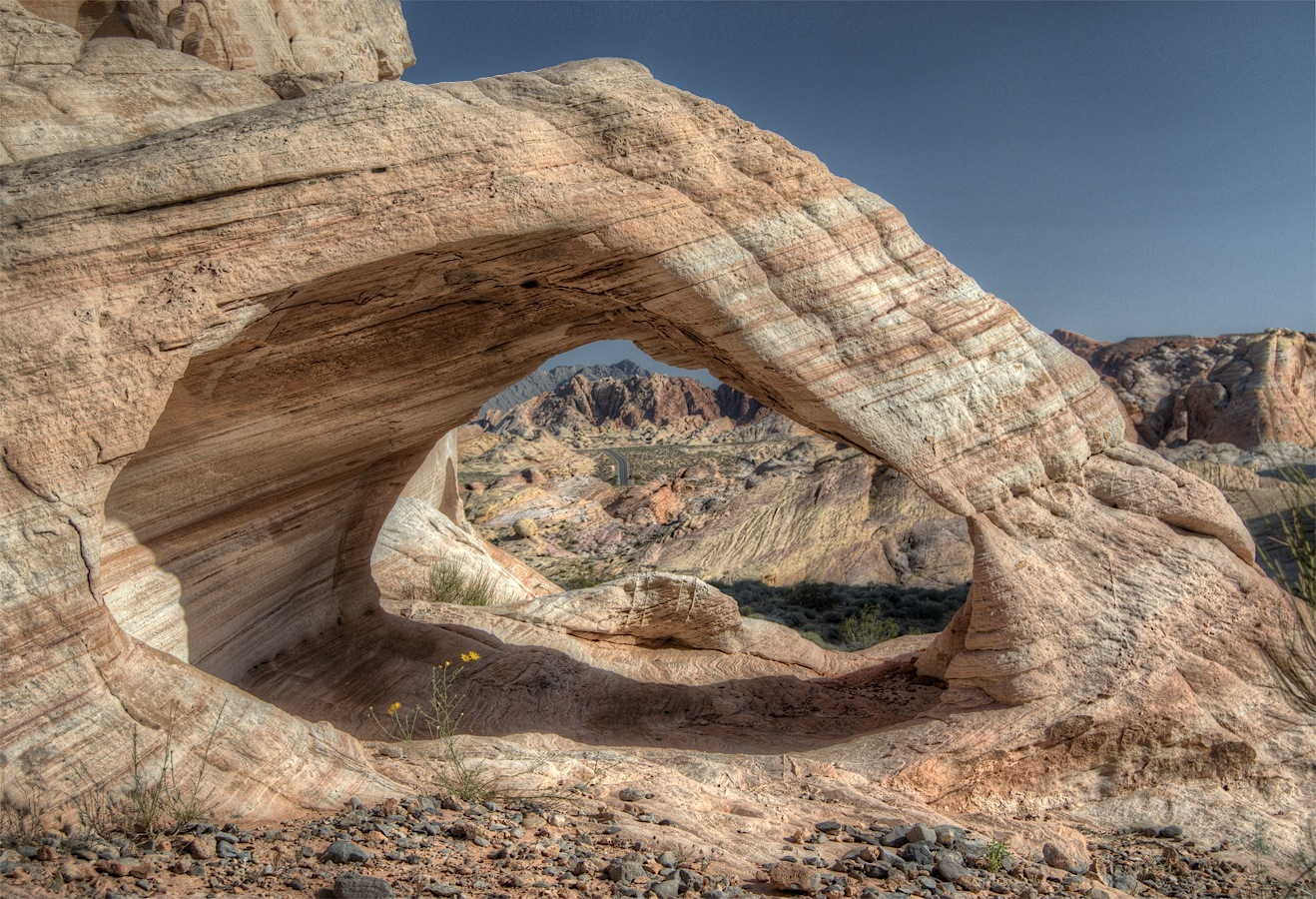 Thunderstorm Arch in Valley of Fire State Park, Nevada. The Synnatschke e-guide calls it this but states that this is not an official name. You can see Scenic Drive Road through the arch.